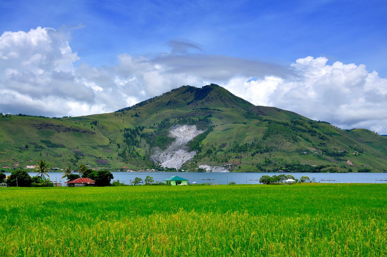 Pusuk Buhit, the small cone has formed on the southwestern margin of the caldera and lava domes.